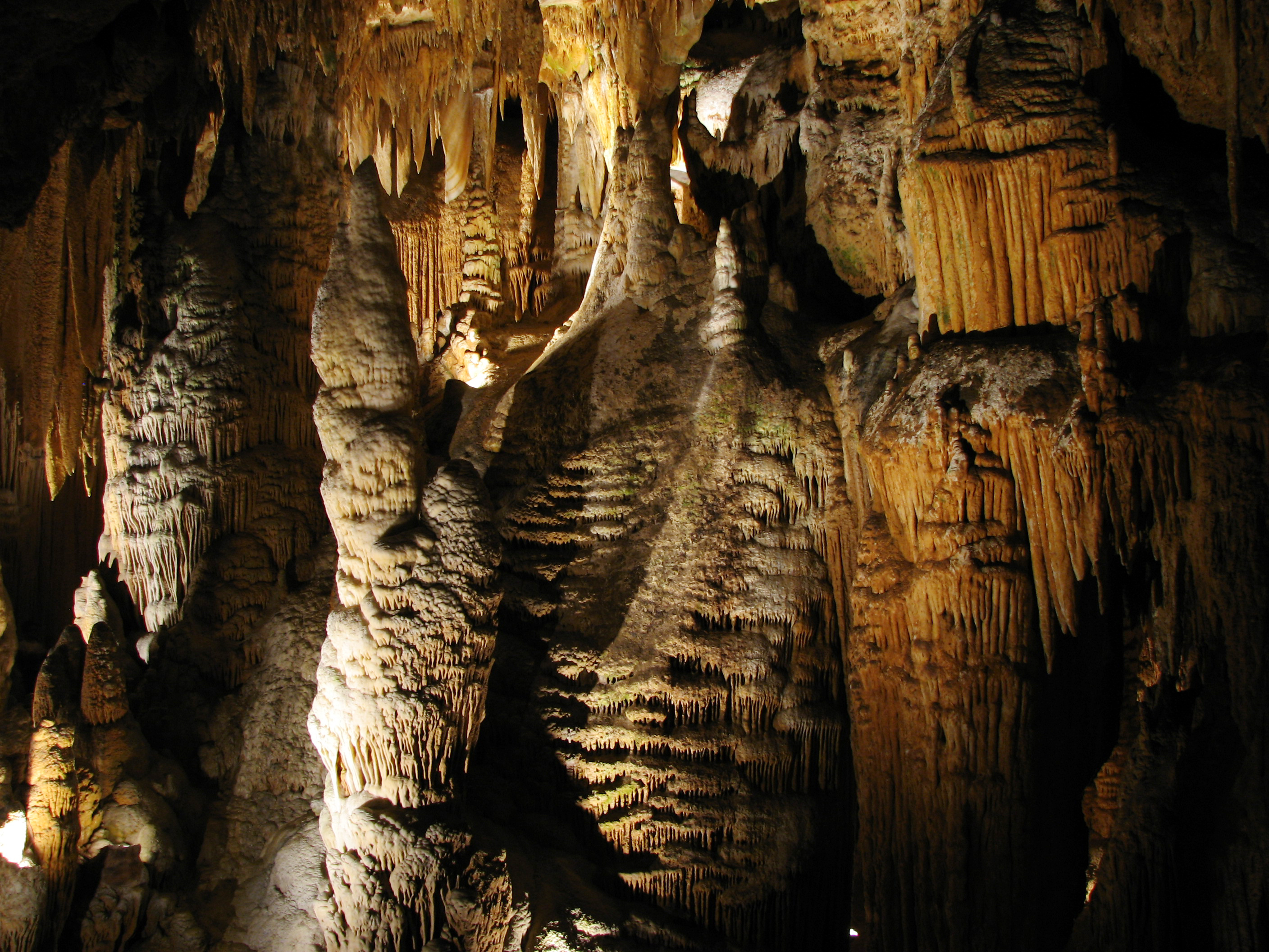 Luray Caverns